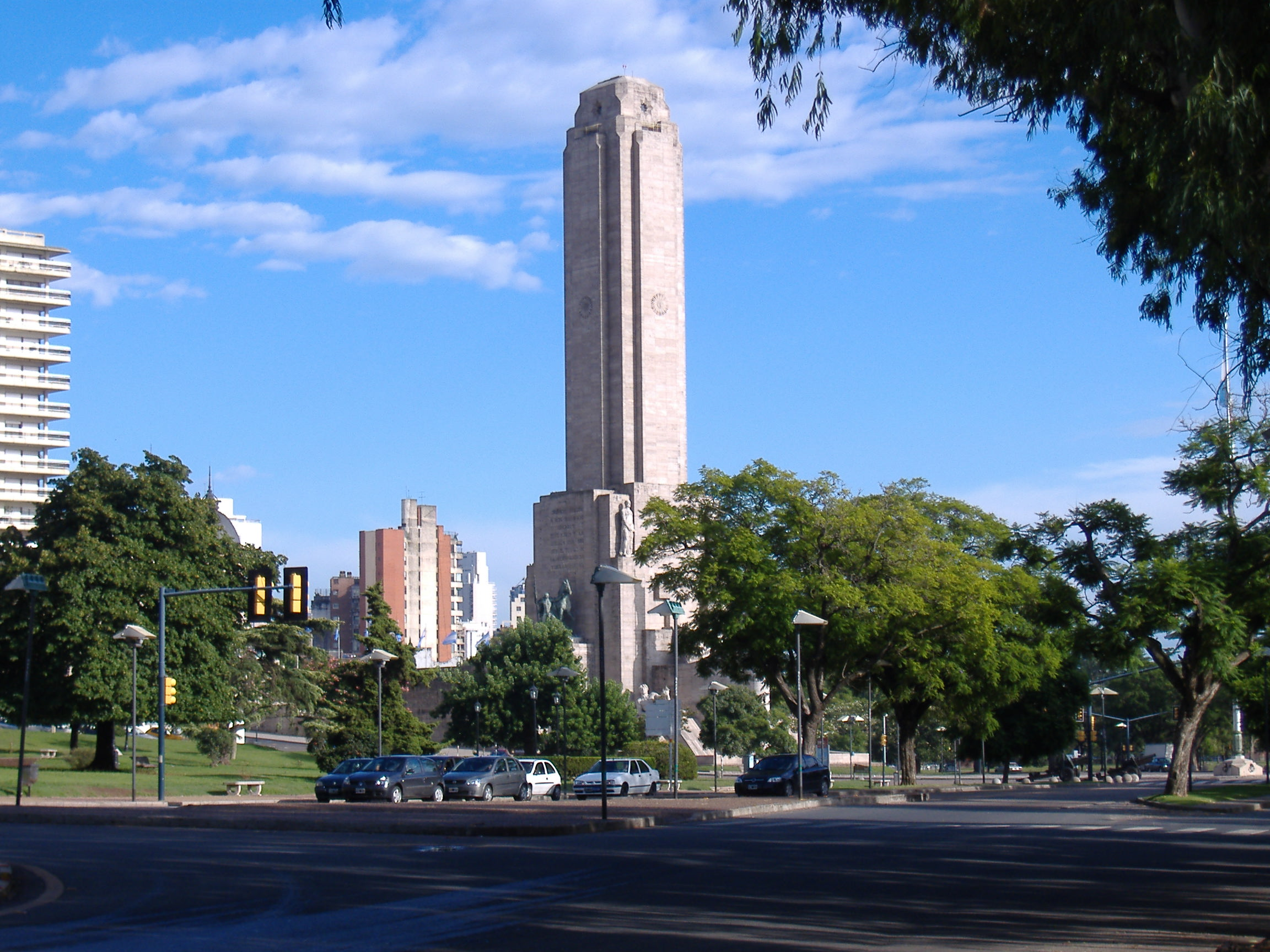 The National Flag Memorial (Monumento Nacional a la Bandera) in Rosario, Argentina, near the banks of the Paraná River. The picture was taken by me, Pablo D. Flores, on 1 March 2006.